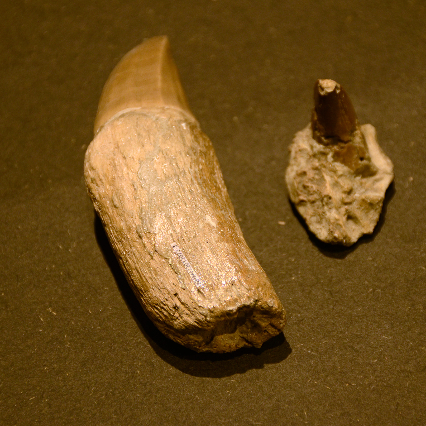 Teeth of Mosasaurus hoffmanni. Natural History Museum of Maastricht.